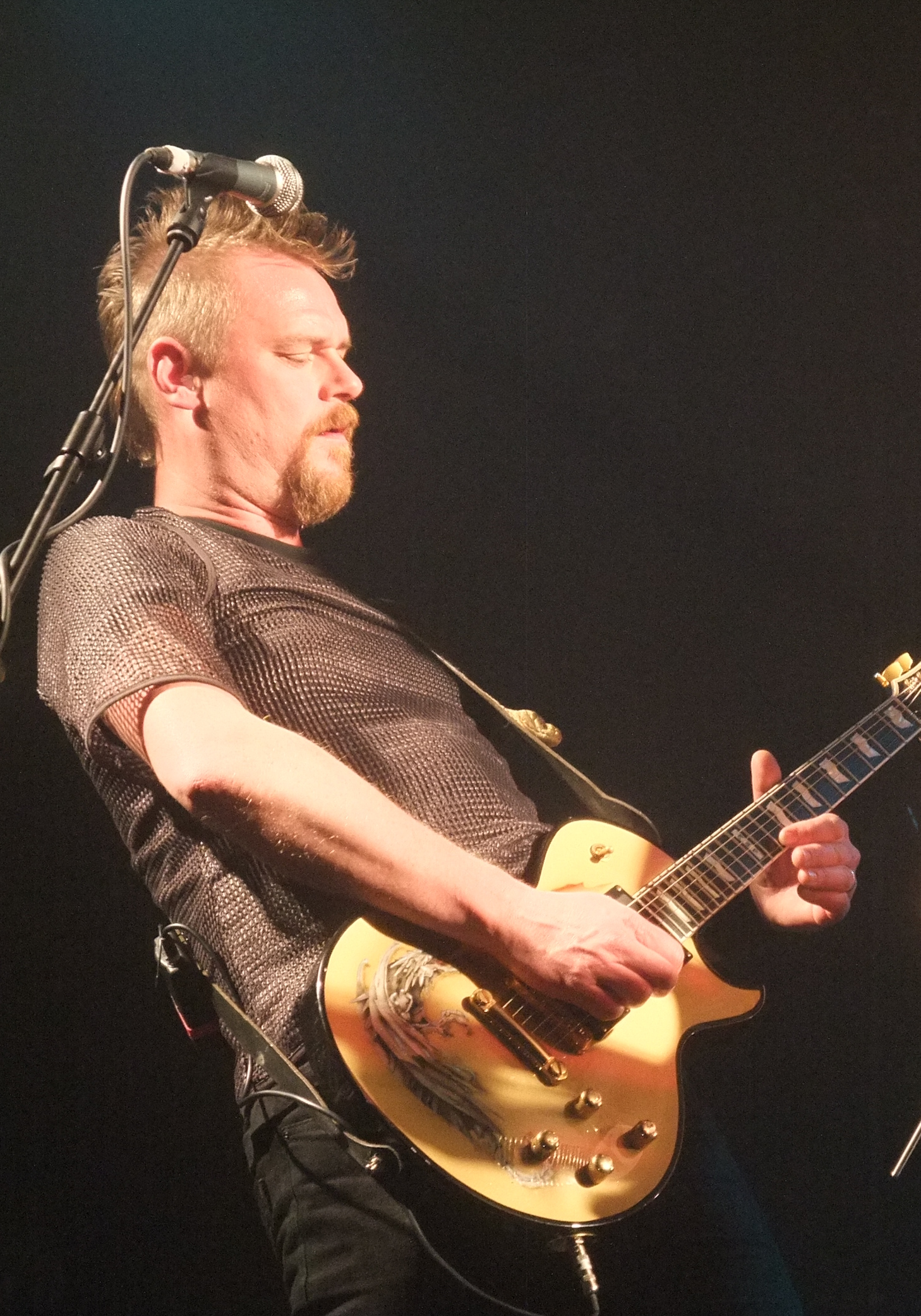 Fredrik Nordström performing with Dream Evil at The Electric Ballroom in London, 6th May 2010